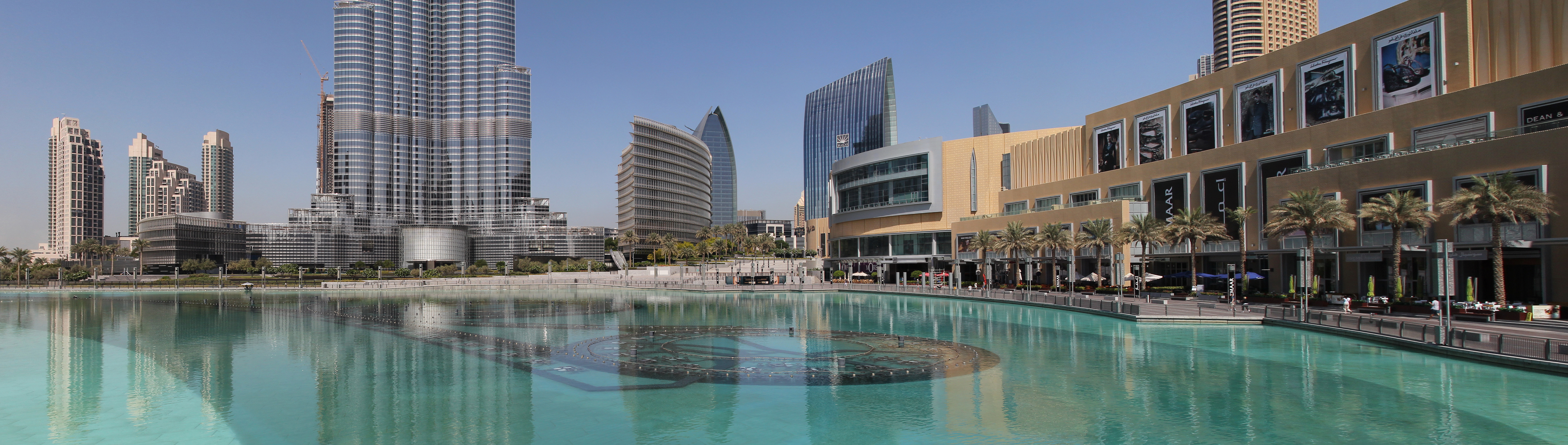 The Dubai Fountain